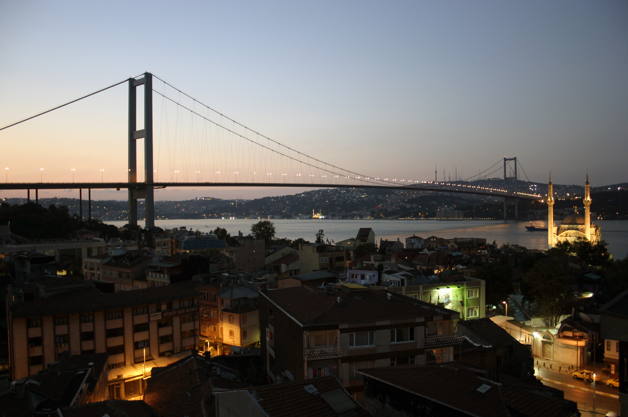 The Ortaköy district of Istanbul at dawn, with the Bosphorus Bridge and Ortaköy Mosque.